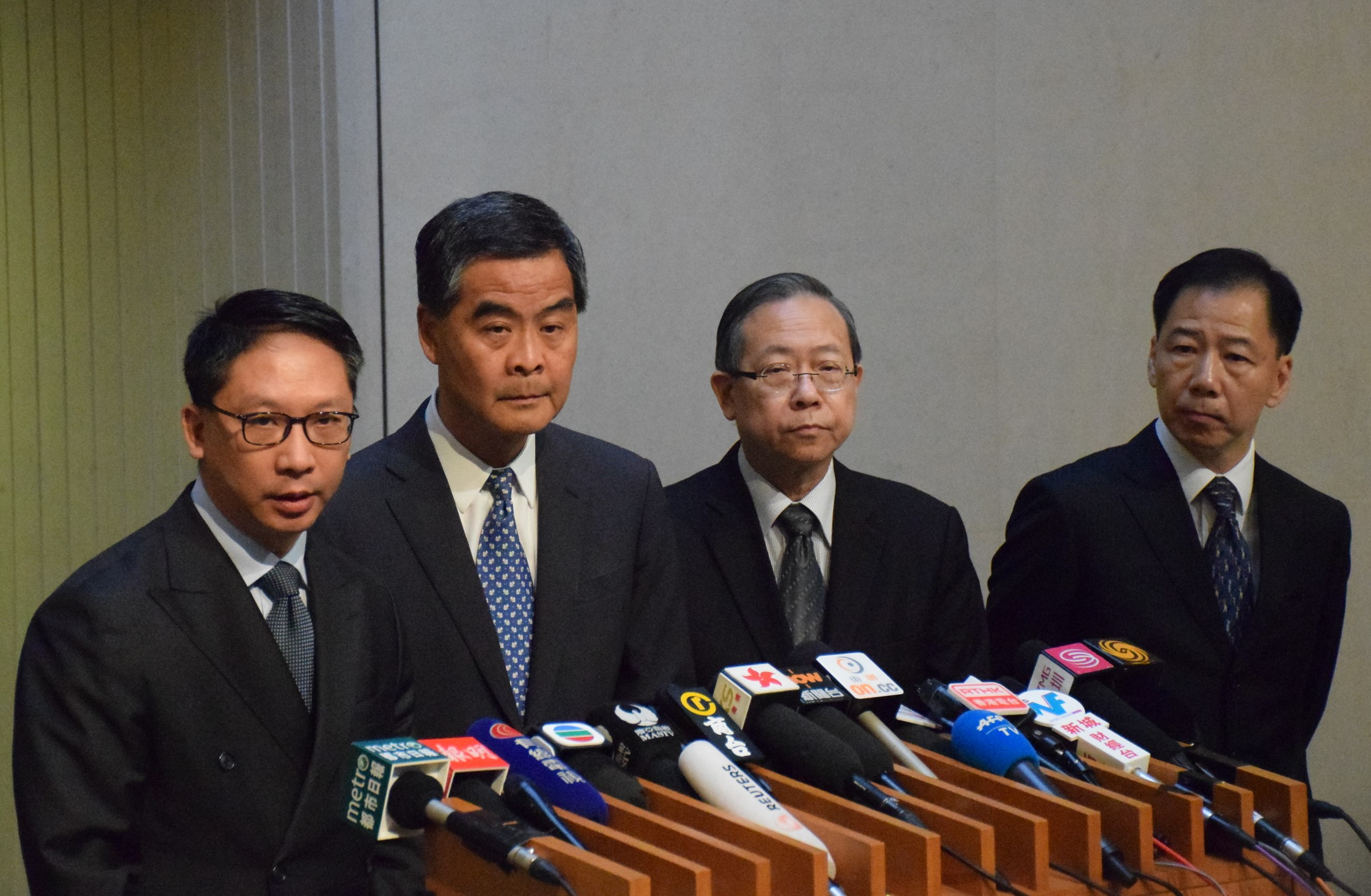 Rimsky Yuen, from left, CY Leung, Lai Tung-kwok, and Tony Wong speak at a press event.